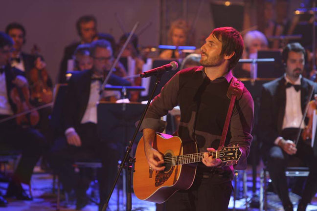 Zach Ashton performing at the Concerto di Natale, Verona, Italy (2008)